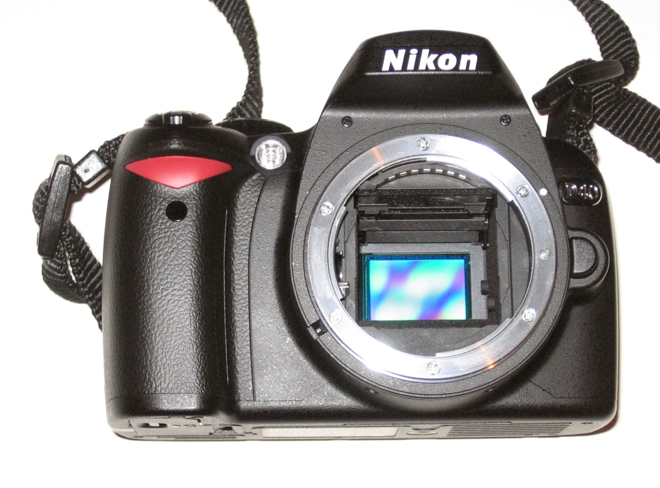 Nikon D40 digital SLR camera with visible CCD image sensor.